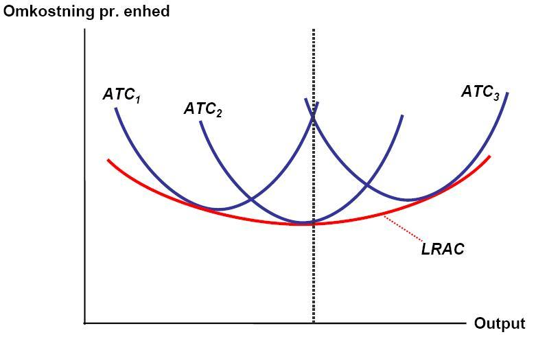 Cost-Volume-Profit Analysis. ATC=Average Total Cost